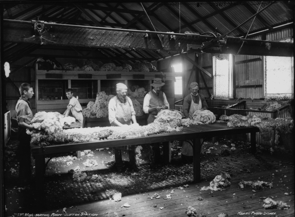 'Rural Life' Pictures from The Powerhouse Museum This file was posted to Flickr by The Powerhouse Museum (See the archive of their website for further information). Many thanks to the Powerhouse Museum for helping release this wonderful material. This tag does not indicate the copyright status of the attached work. A normal copyright tag is still required. See Commons:Licensing for more information.